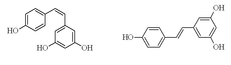 Chemical strusture of cis- and trans-resveratrols